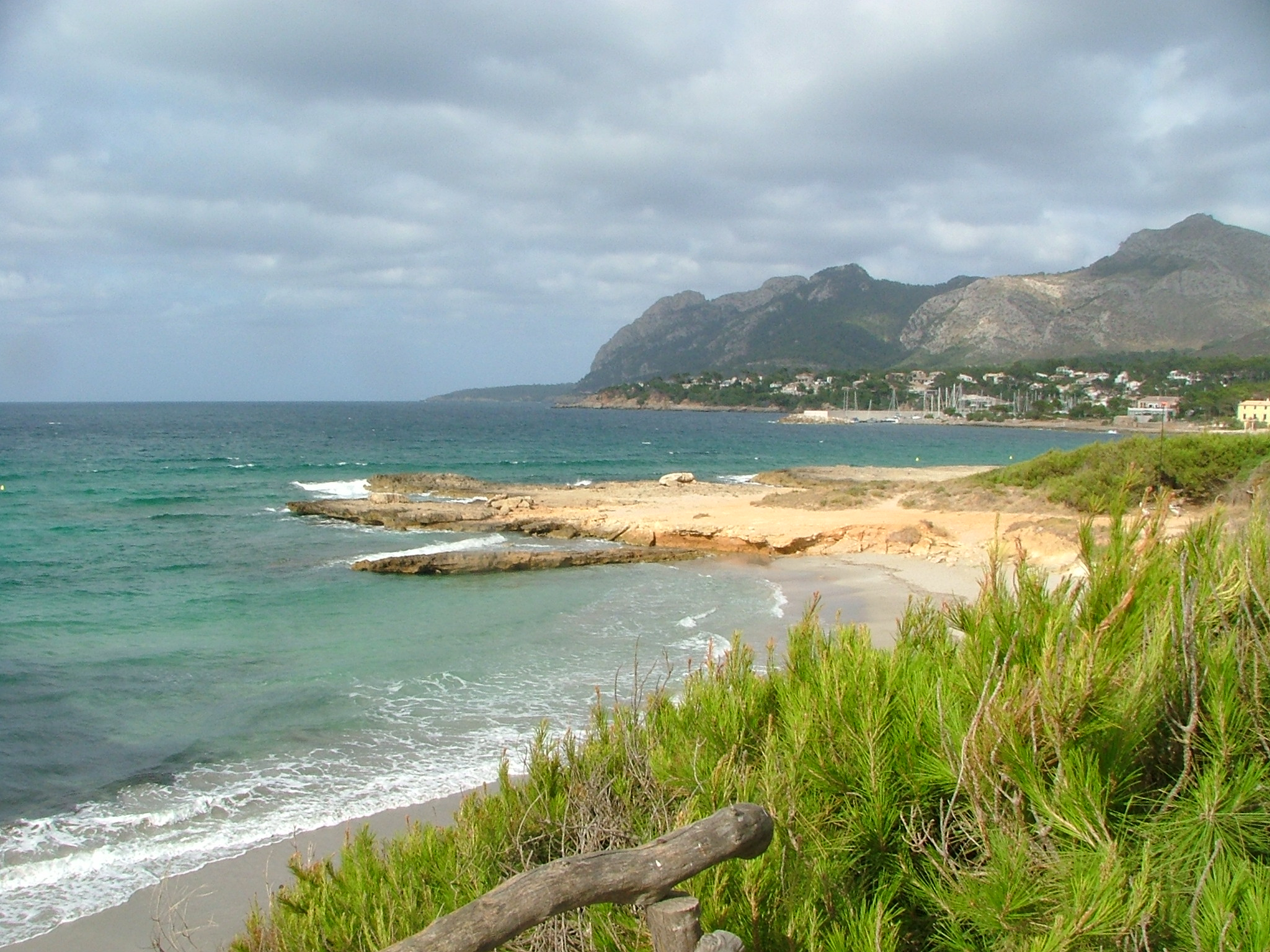 Manresa beach (platja) in Alcudia, Mallorca, Spain